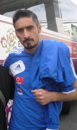 In Jachranka during EURO 2012.